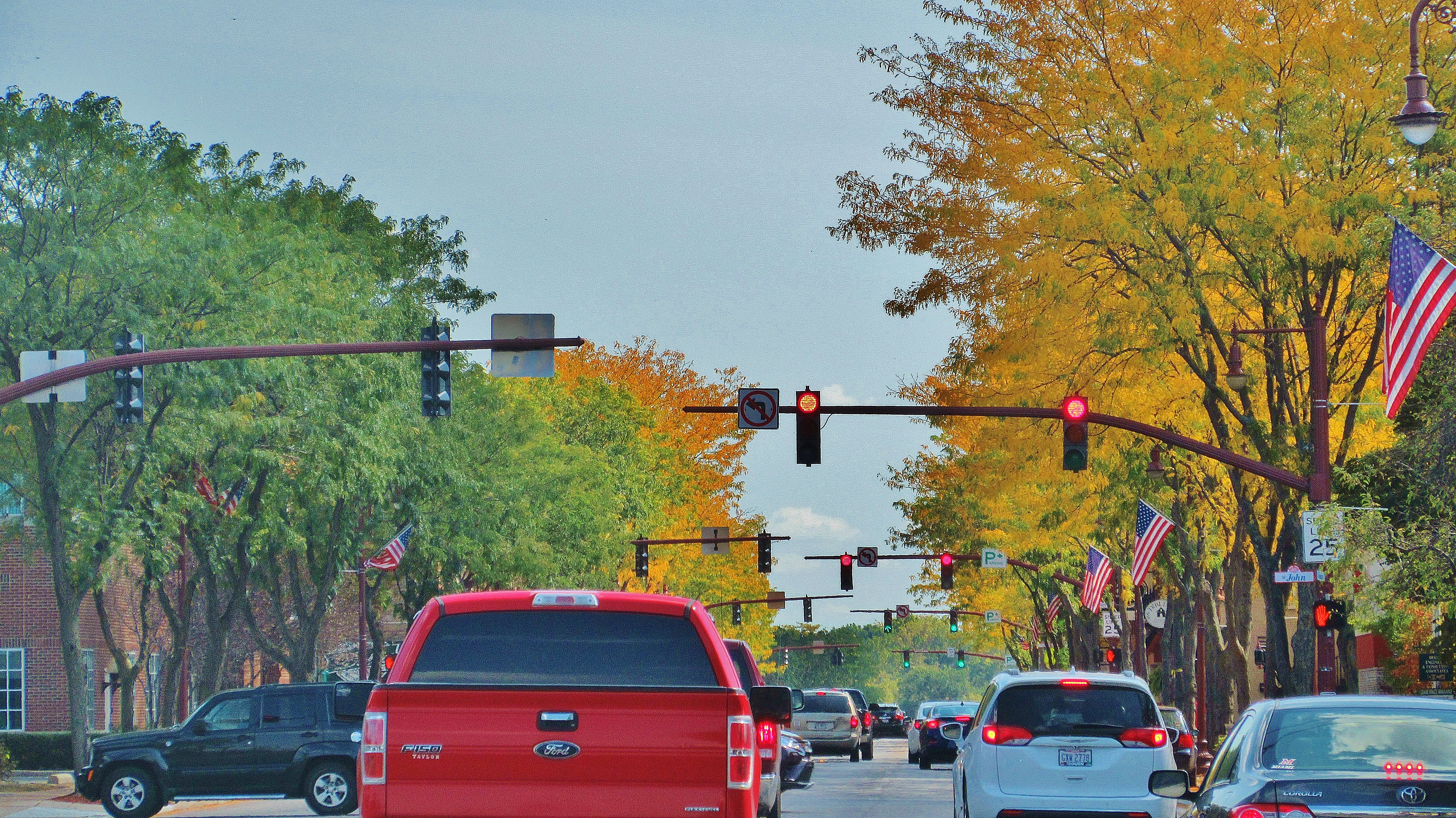 View of downtown Maumee, Ohio